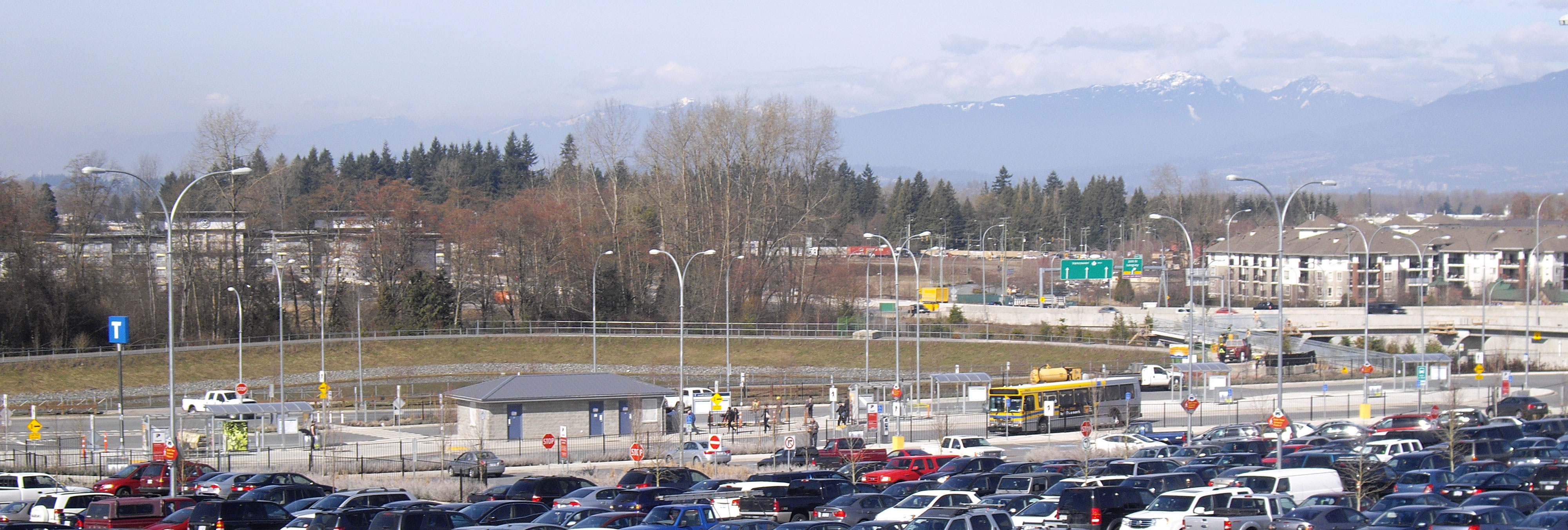 Panoramic view of Carvolth Exchange Park and Ride in Langley, BC